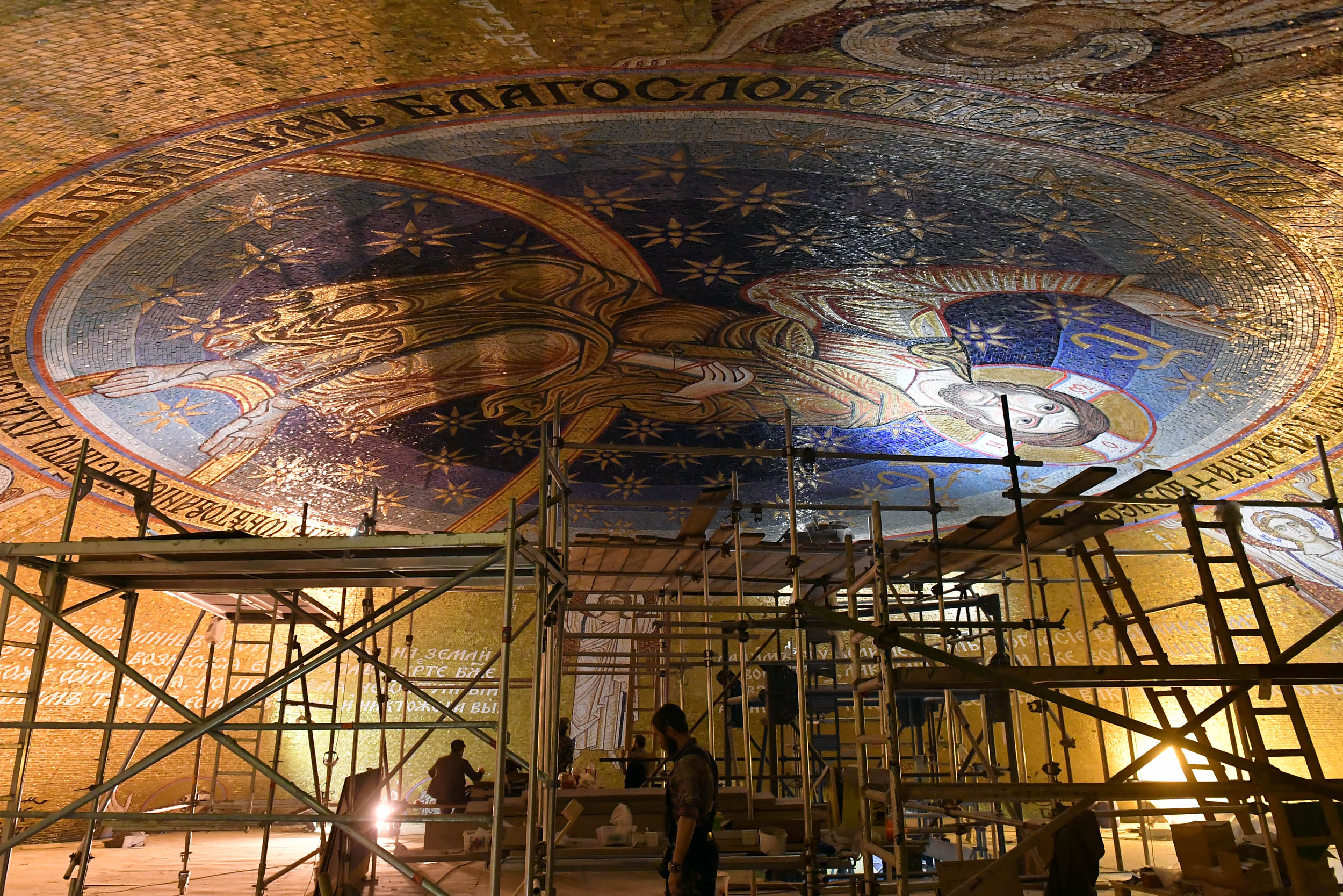 30.10.2017_NGS Dikovic ugradnja mozaika u kupolu Hrama Svetog Save D_Banda